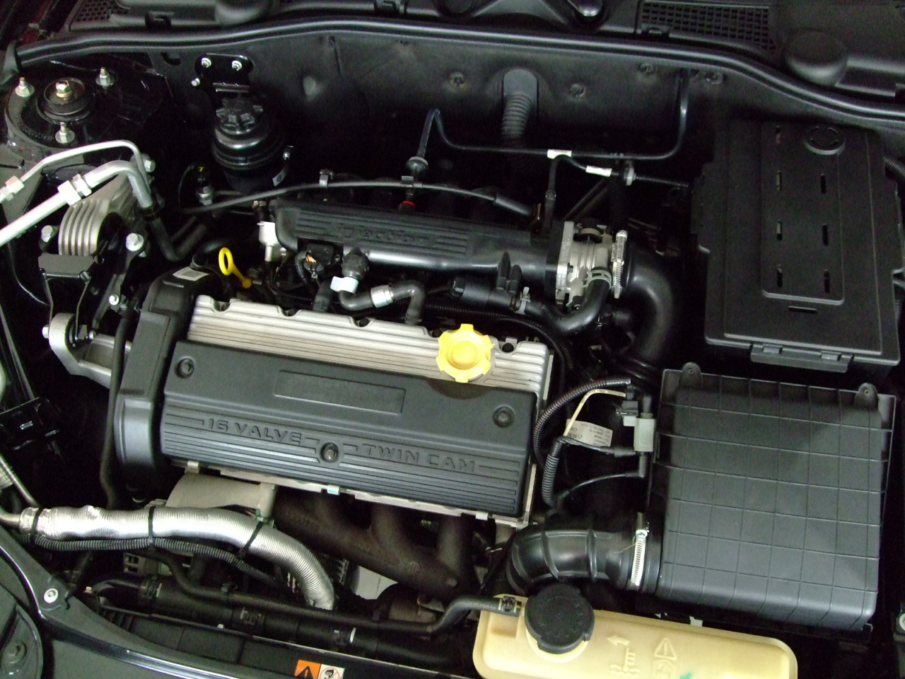 2008 MG 7 18.T engine